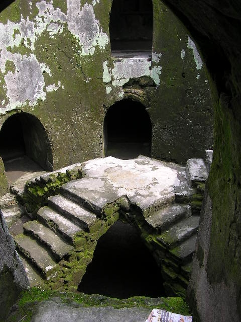 The ruins of Tamansari, a former garden of the Yogyakarta sultan.